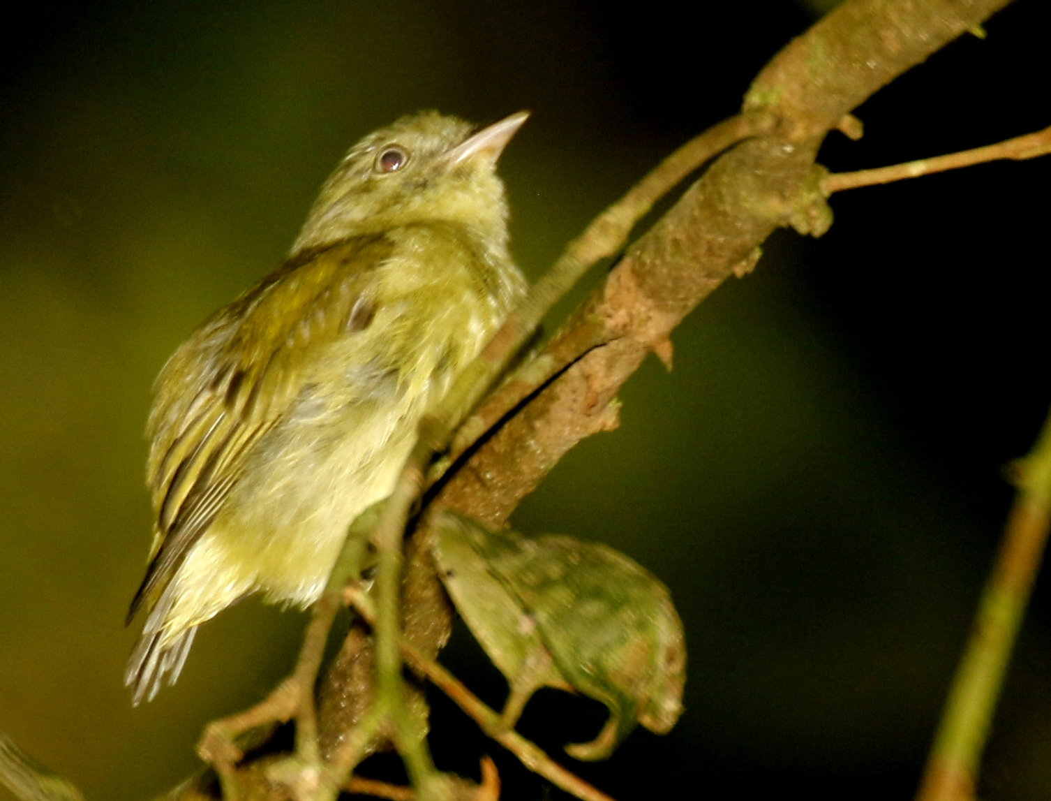 Sani Lodge - Ecuador